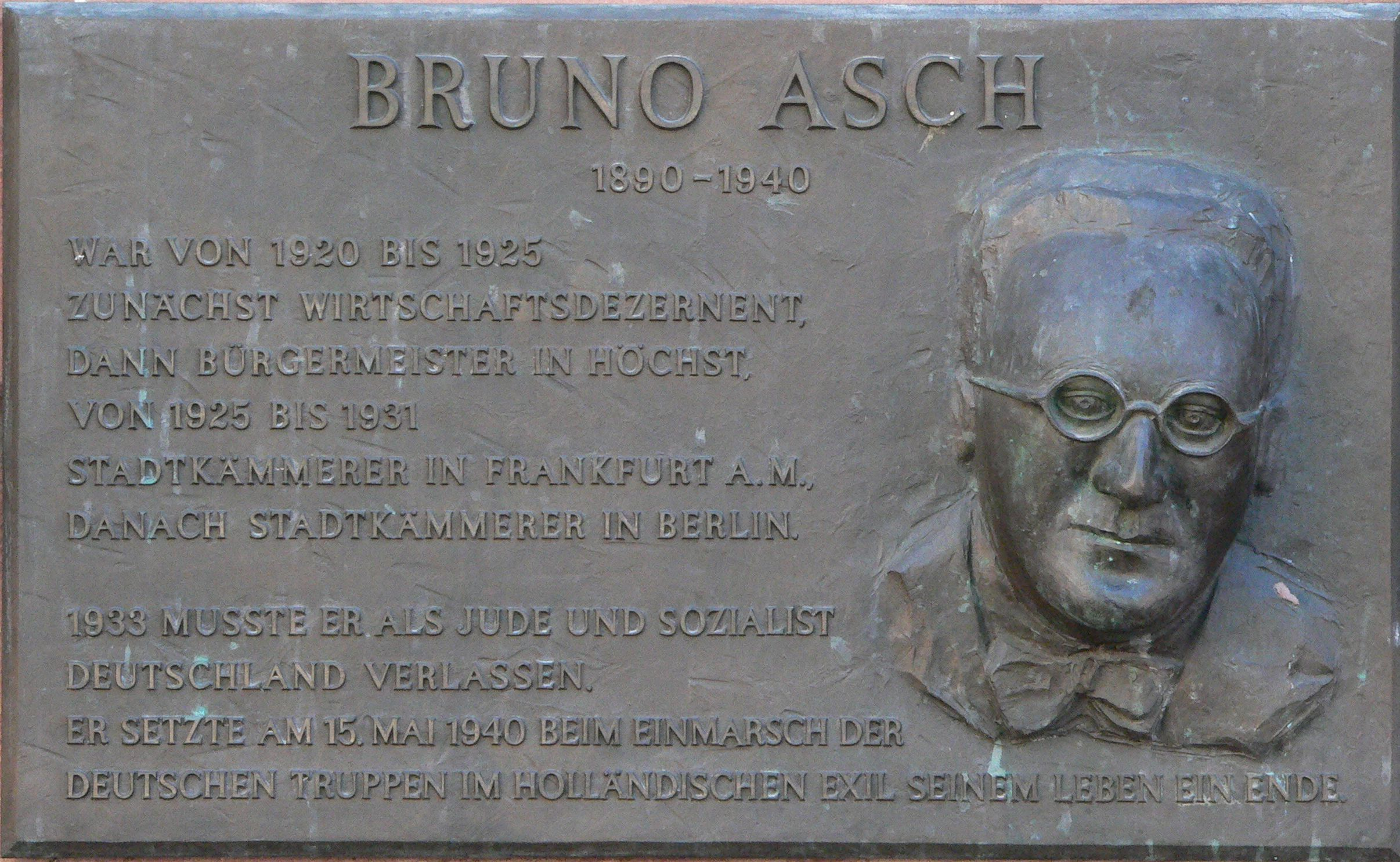 Memorial for Bruno Asch (1890-1940) at the Bolongaropalast in Höchst. Bruno Asch was mayor of the City of Höchst on Main from 1922 to 1925. From 1925 he was alderman in Frankfurt, Germany. As a jew in 1933 he emigrated to the Netherlands where he committed suicide in 1940 after the German invasion.